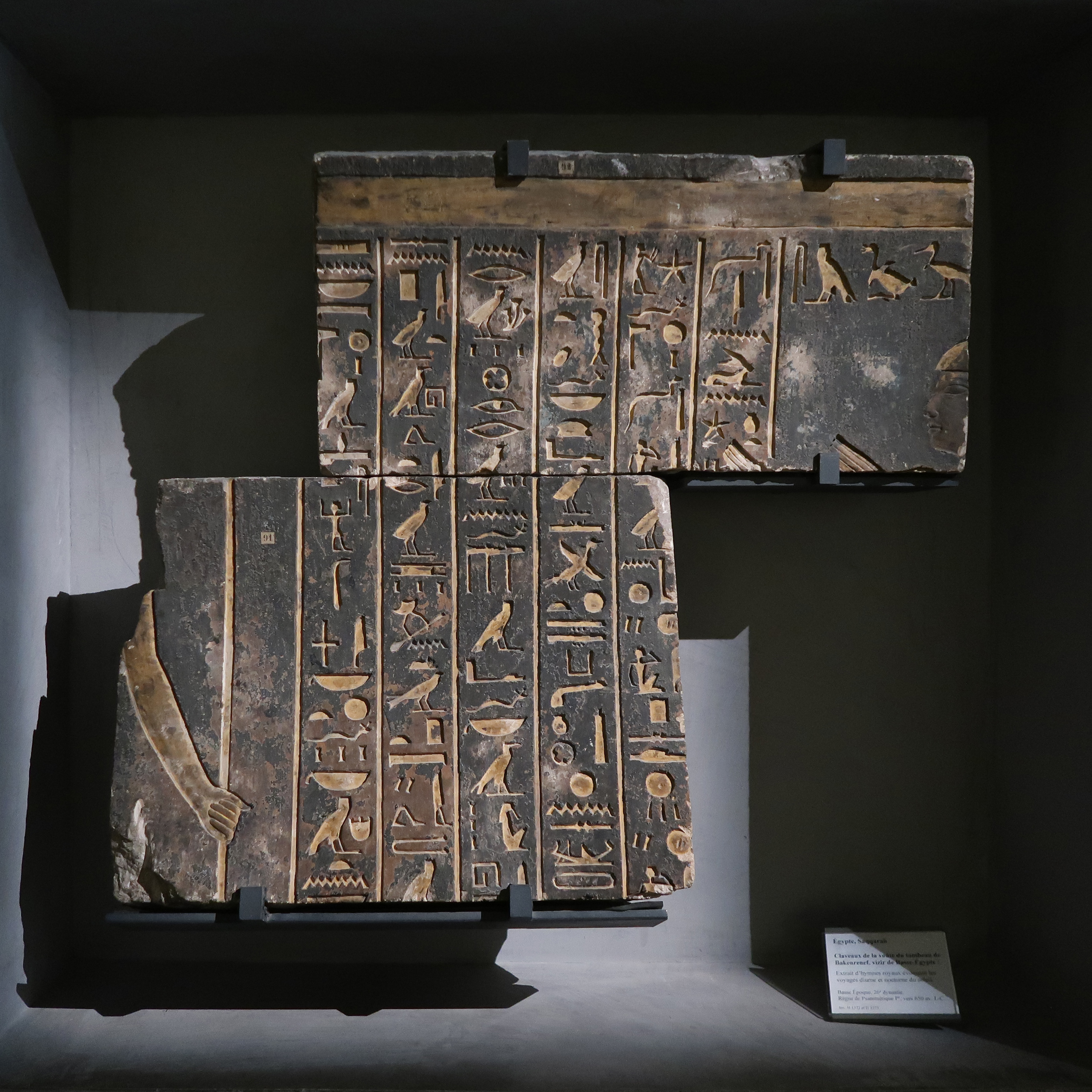 Part of the vault of the tumb of Bakenranef, vizir of Low Egypt. Extract of a set of royal anthems describing the day and night travels of the sun.